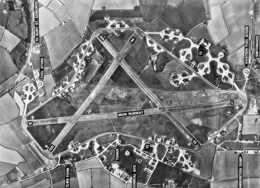 Aerial photograph of Lavenham Airfield, England.